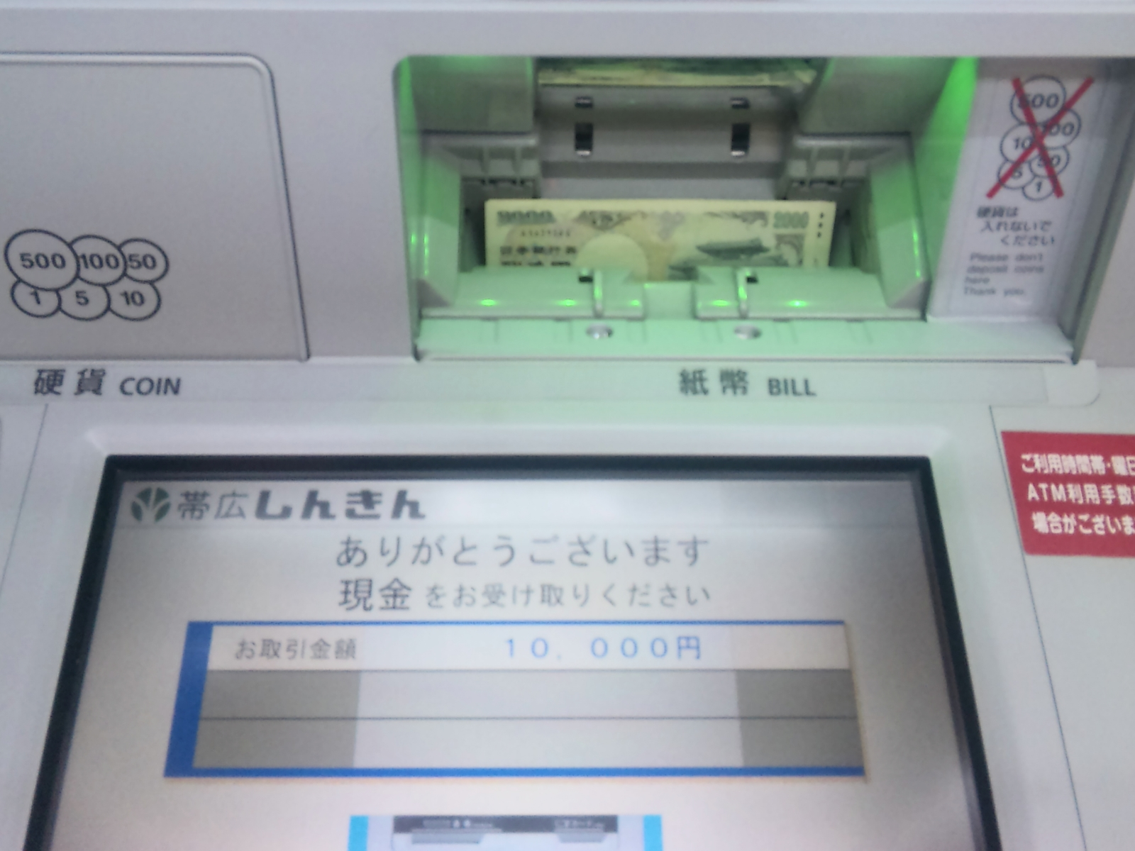 Withdrawal five 2000 Japanese yen notes from Obihiro shinkin bank at Obihiro, Hokkaidō, Japan.